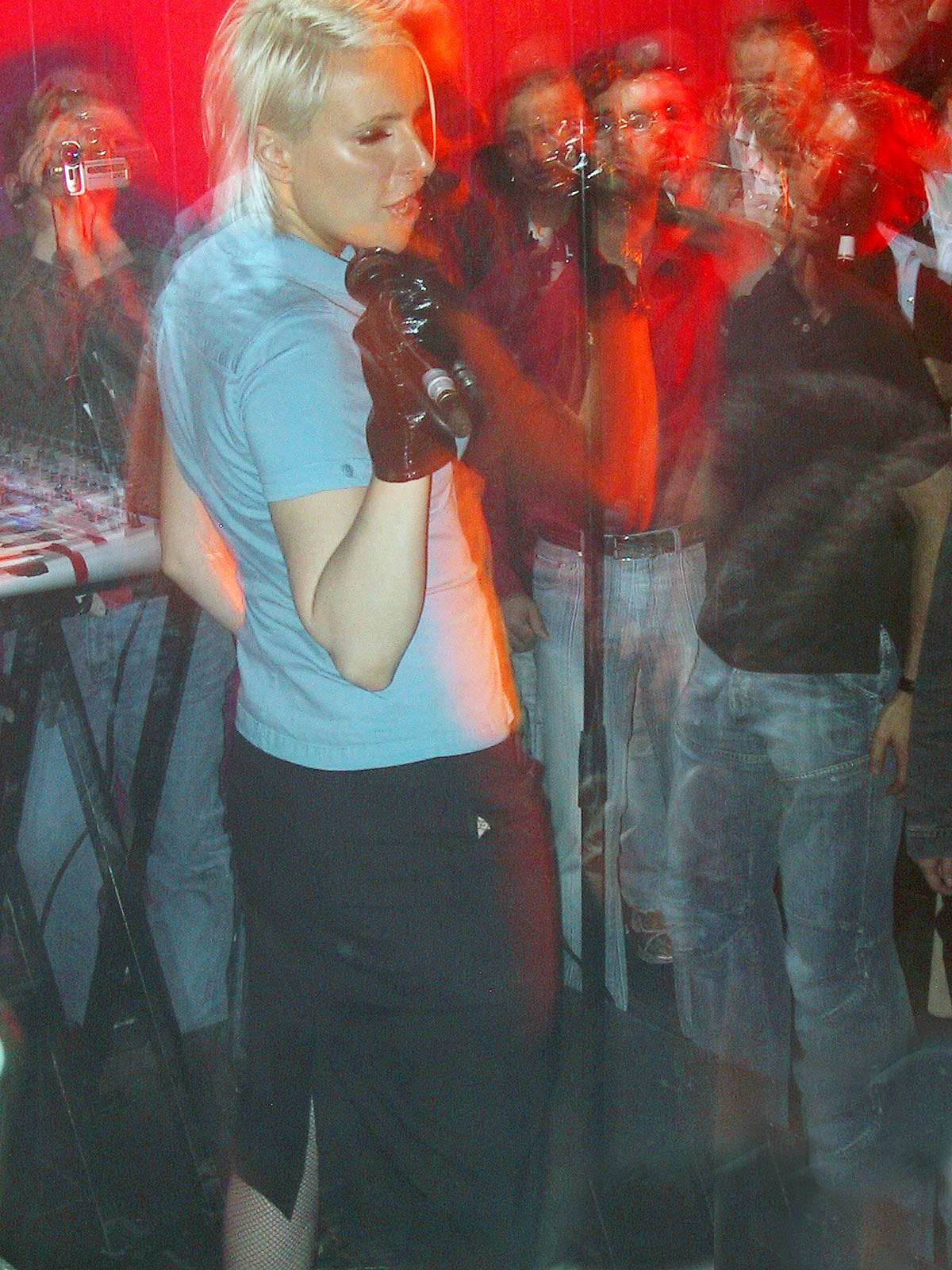 Die Electropop Band CLIENT auf einem Clubabend im Hotel Shanghai The electropop Band CLIENT at a club gig in the Hotel Shanghai Date: June 2005, Essen, Germany Author: Flux Garden Licence: cc-by-sa-2.5 Client (Band)